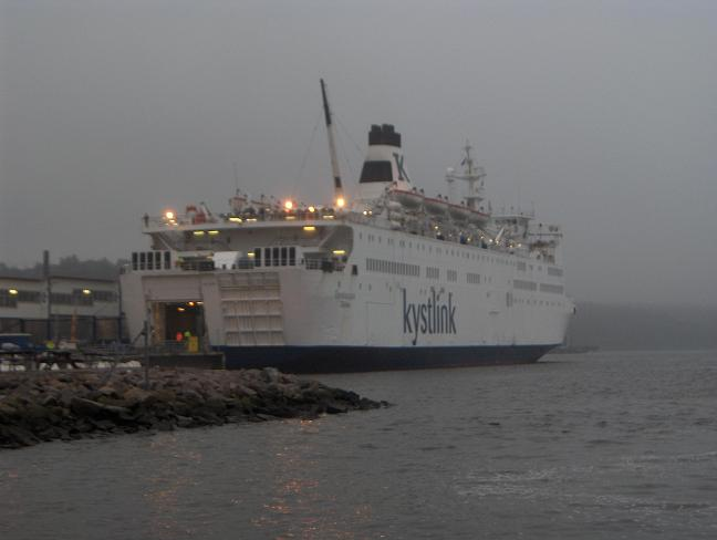 Passenger ferry MS Kongshavn, Strömstad Sweden. IMO: 7807744 MMSI: 276214000 Call sign: P3VS7 Length: 136 m Beam: 24 m